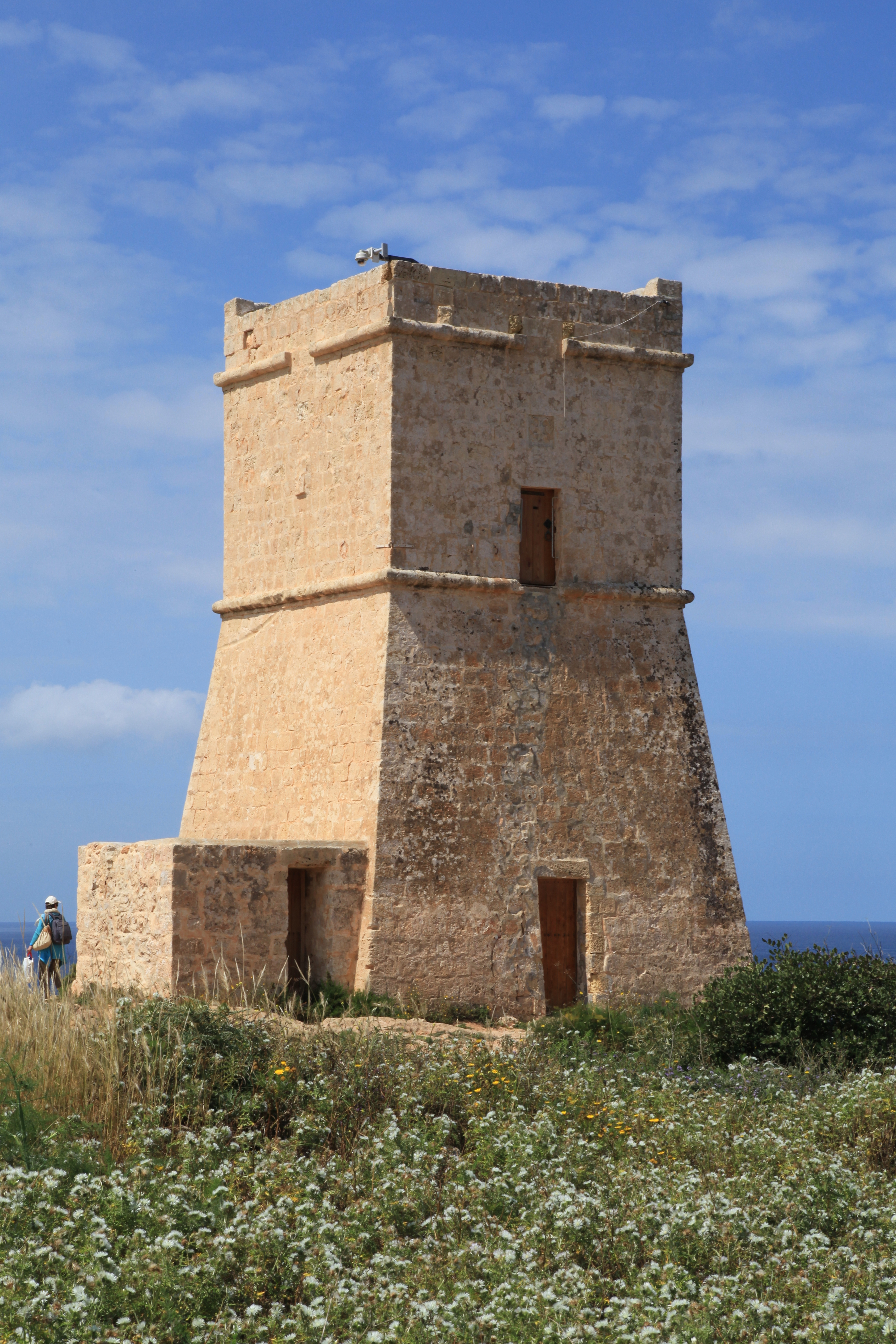 Għajn Tuffieħa Tower in the Għajn Tuffieħa nature reserve in Mġarr, Malta